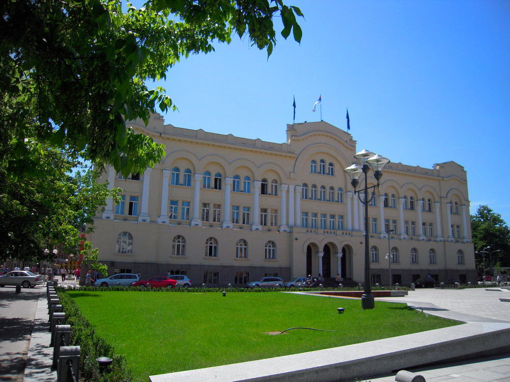 City palace